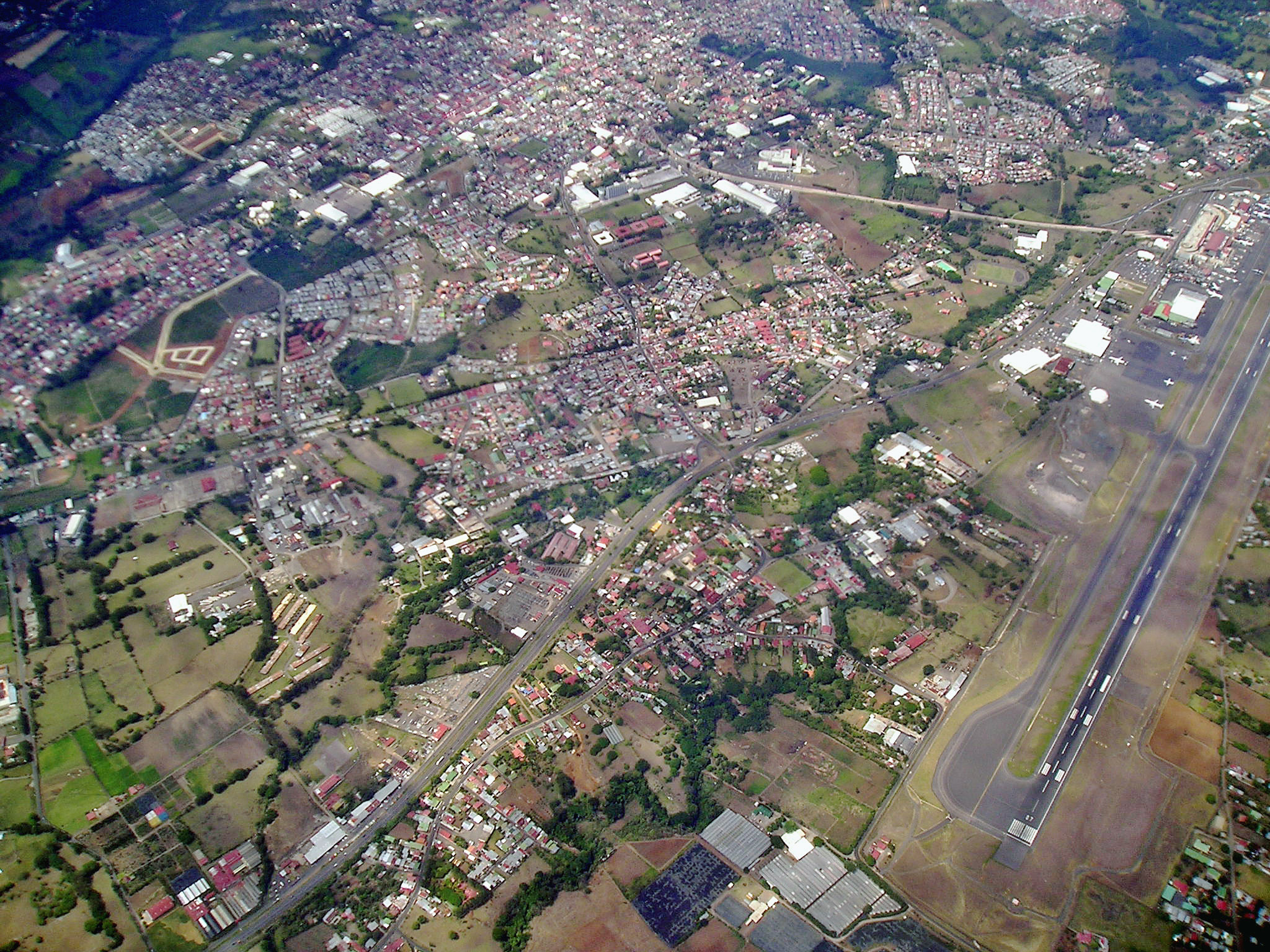 View of Alajuela from plane